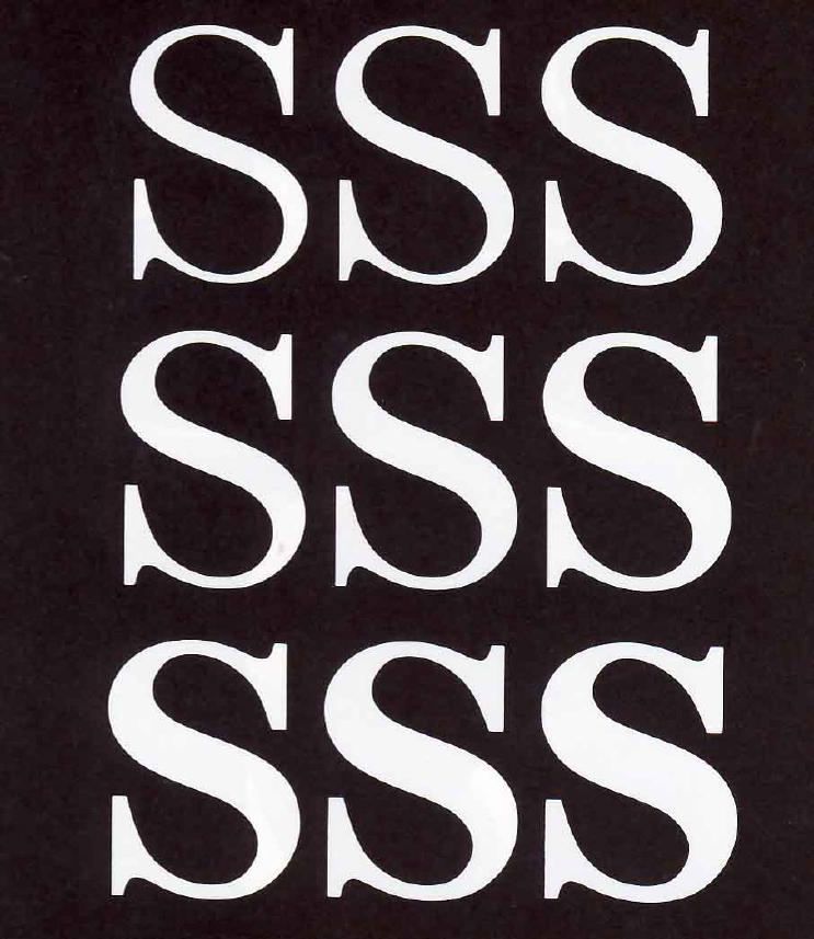 interpolation of typefaces